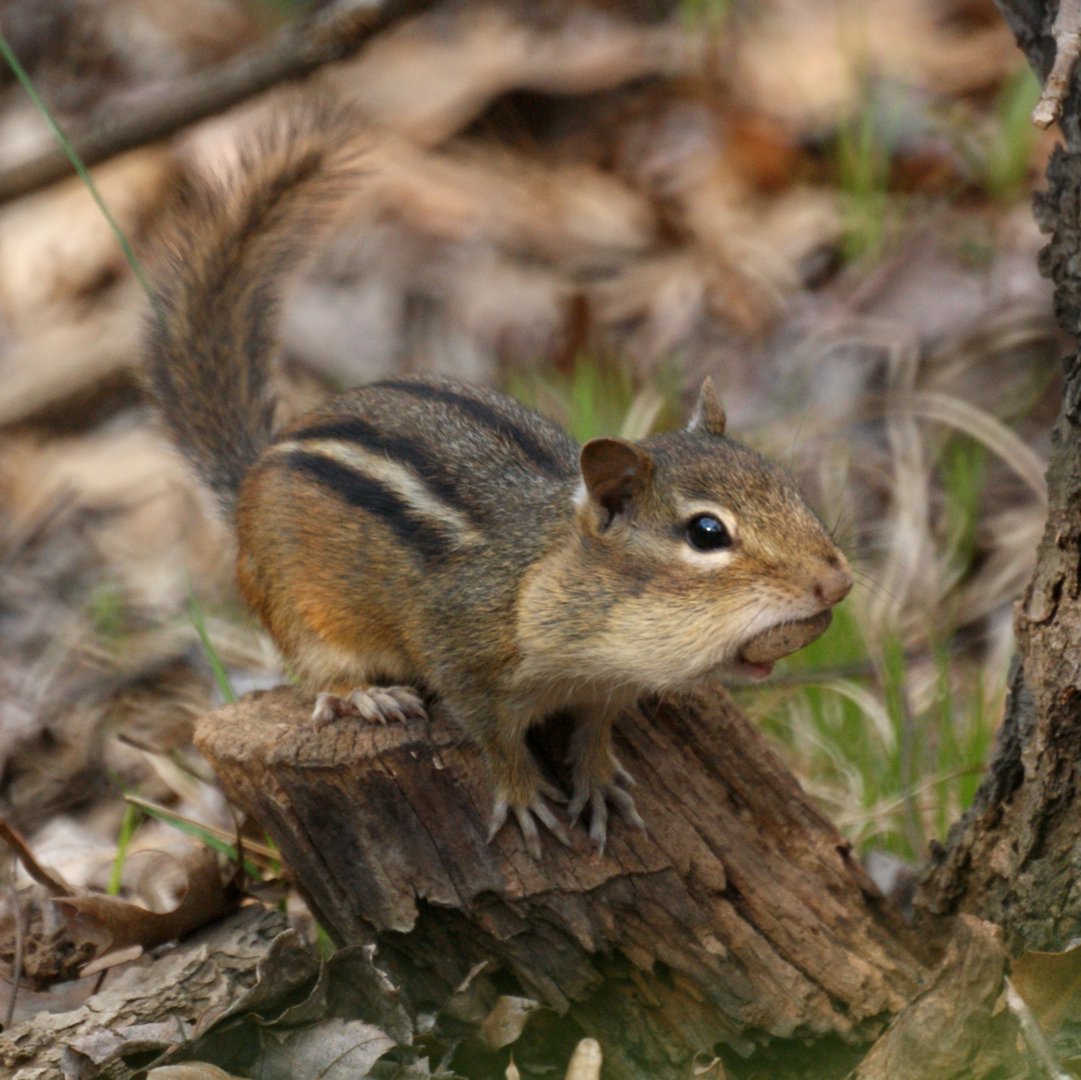 Chipmunk (Tamias striatus) Taken at Garret Mountain, West Paterson, NJ